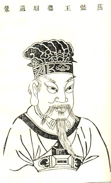 A depiction of Zhao Dezhao, Prince Yi of Yan.